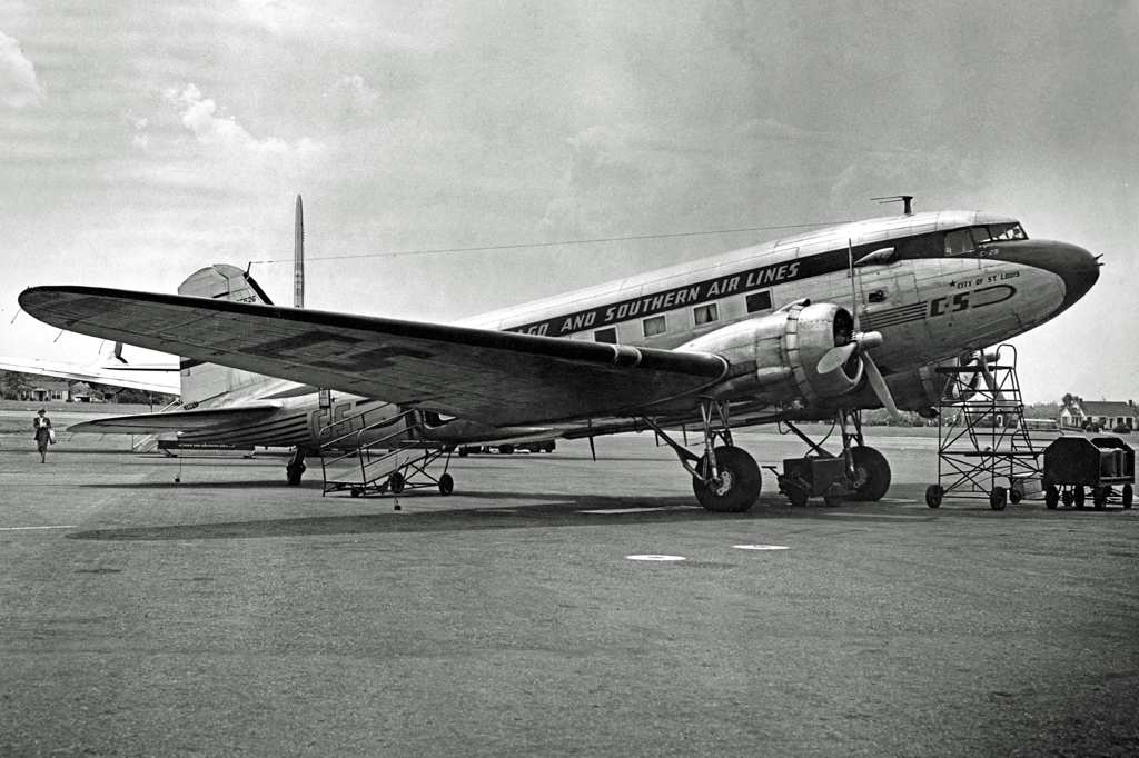 Douglas DC-3 of Chicago and Southern Air Lines at St Louis airport